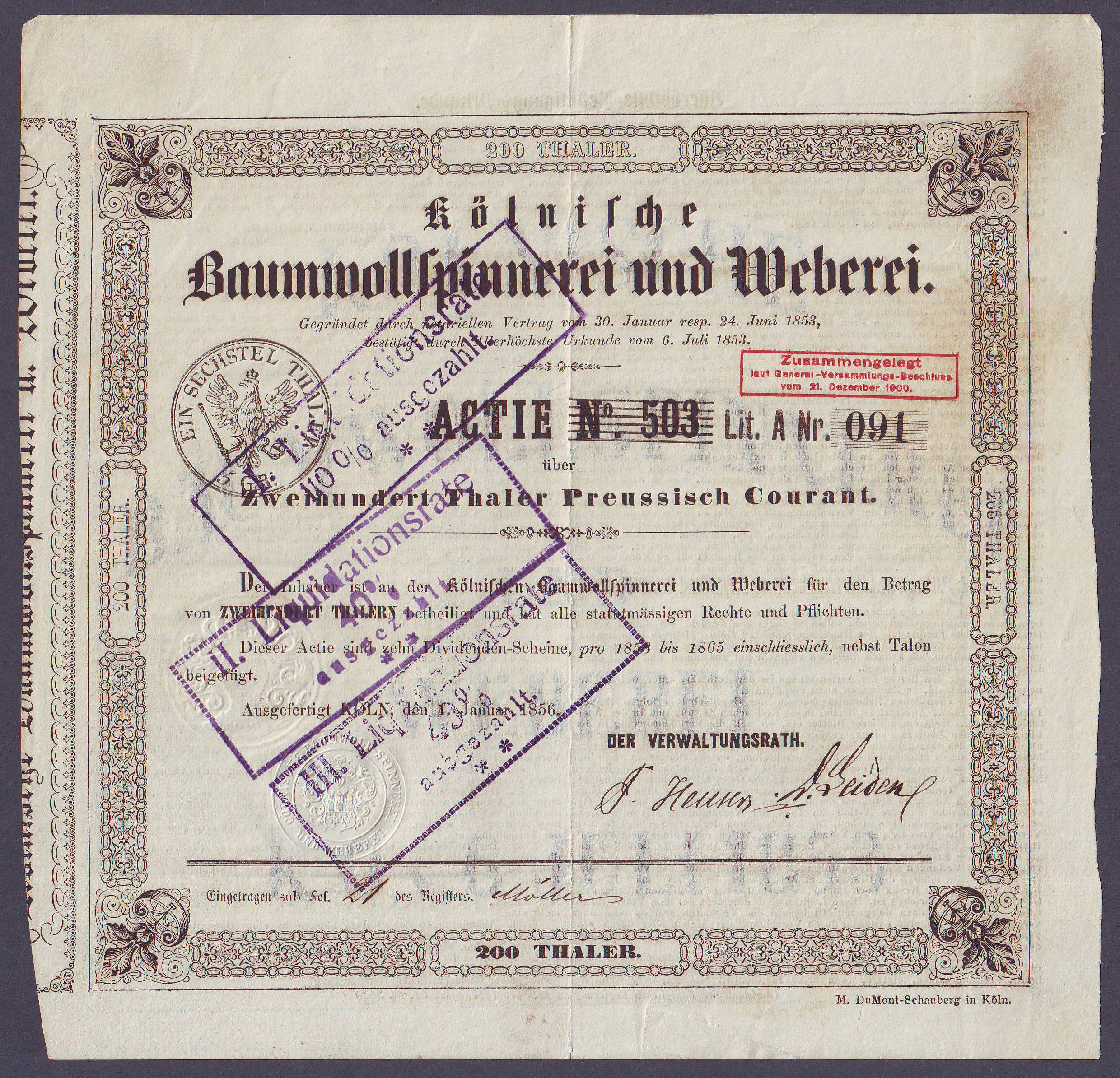 Share of the Kölnische Baumwollspinnerei und Weberei, issued 1. January 1856